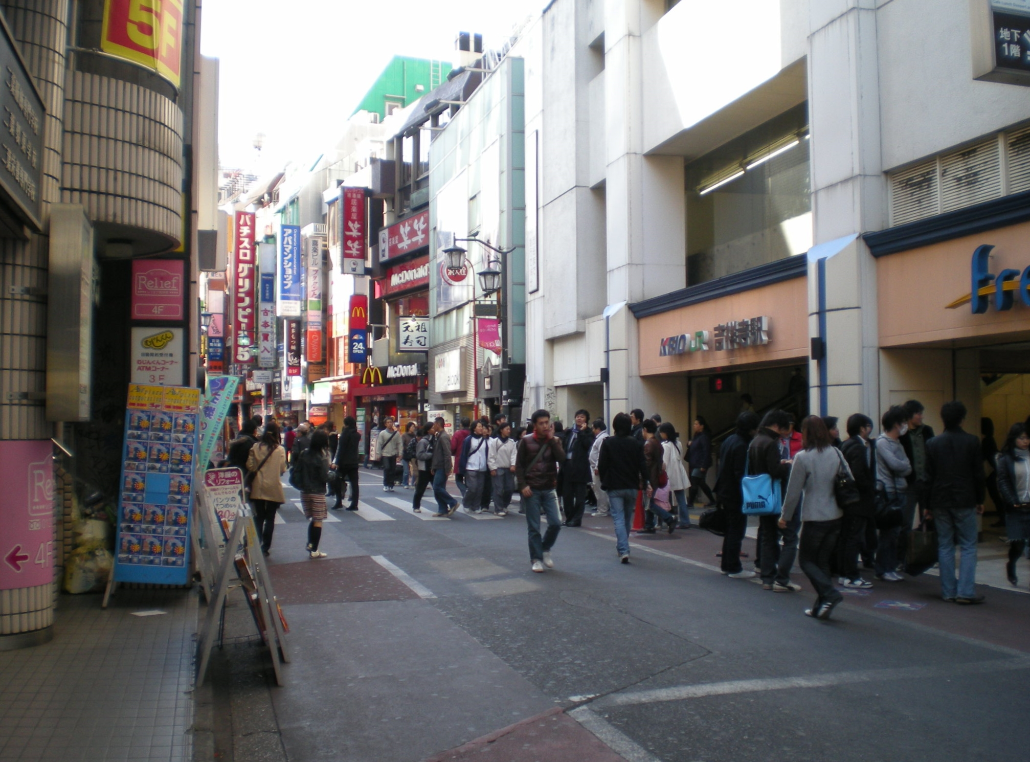 The south entrance to Kichijoji Station in Tokyo